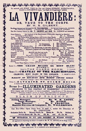 Scan of original London theatre programme for La Vivandière at Queen's Theatre, Long Acre, dated 22 January 1868.